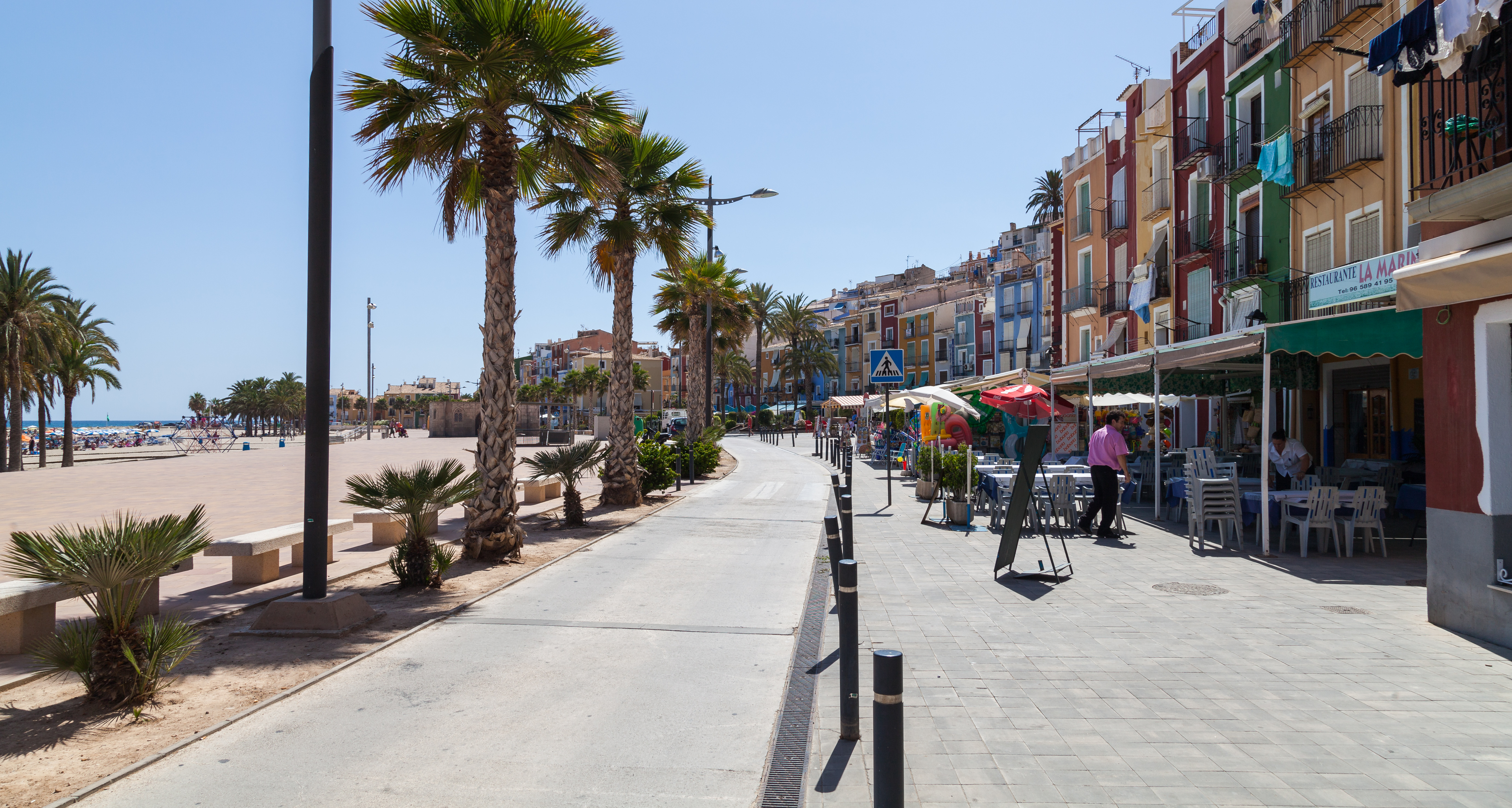 Center Beach, Villajoyosa, Spain